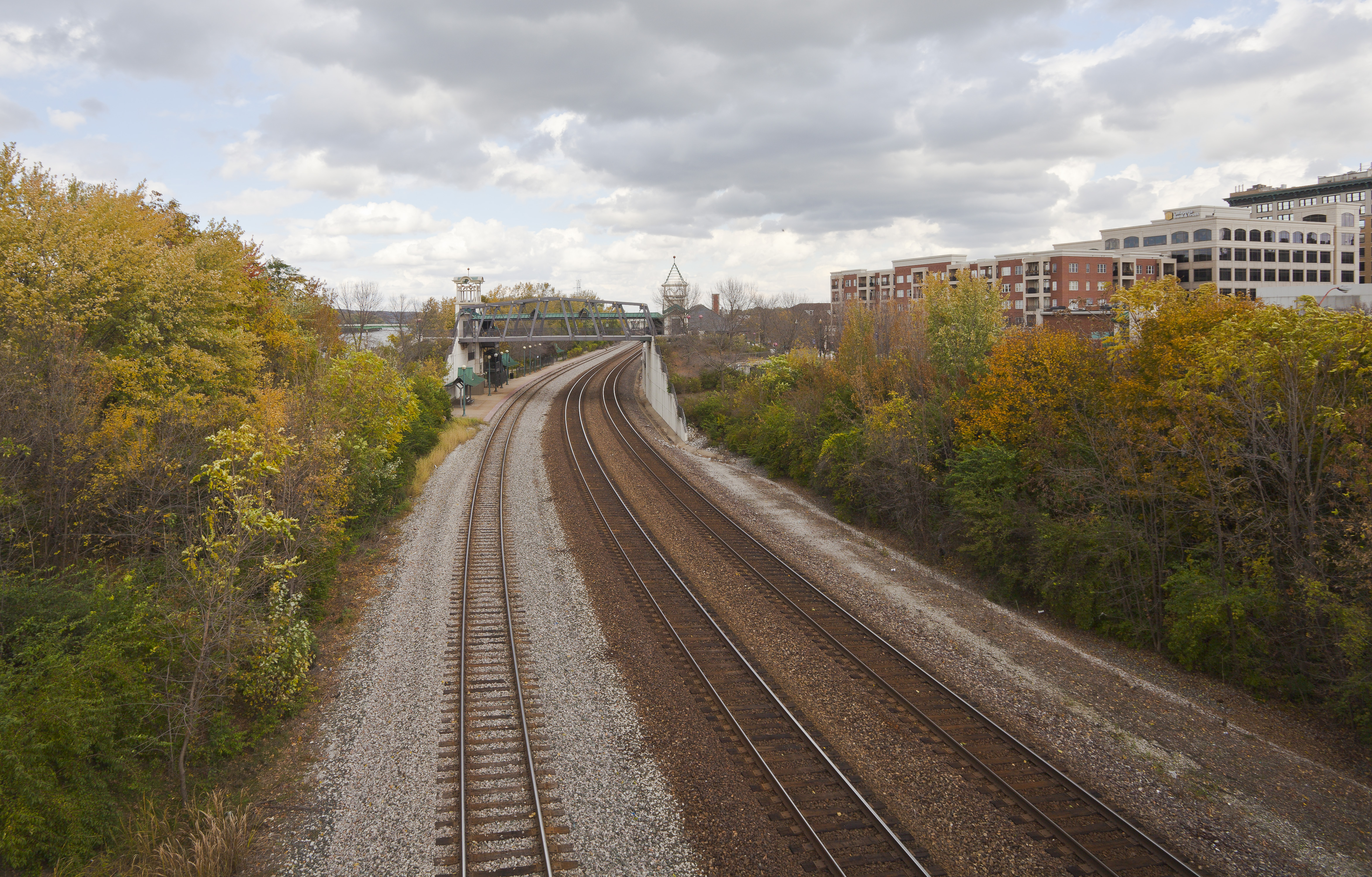 Rails at Lafayette, Indiana, USA